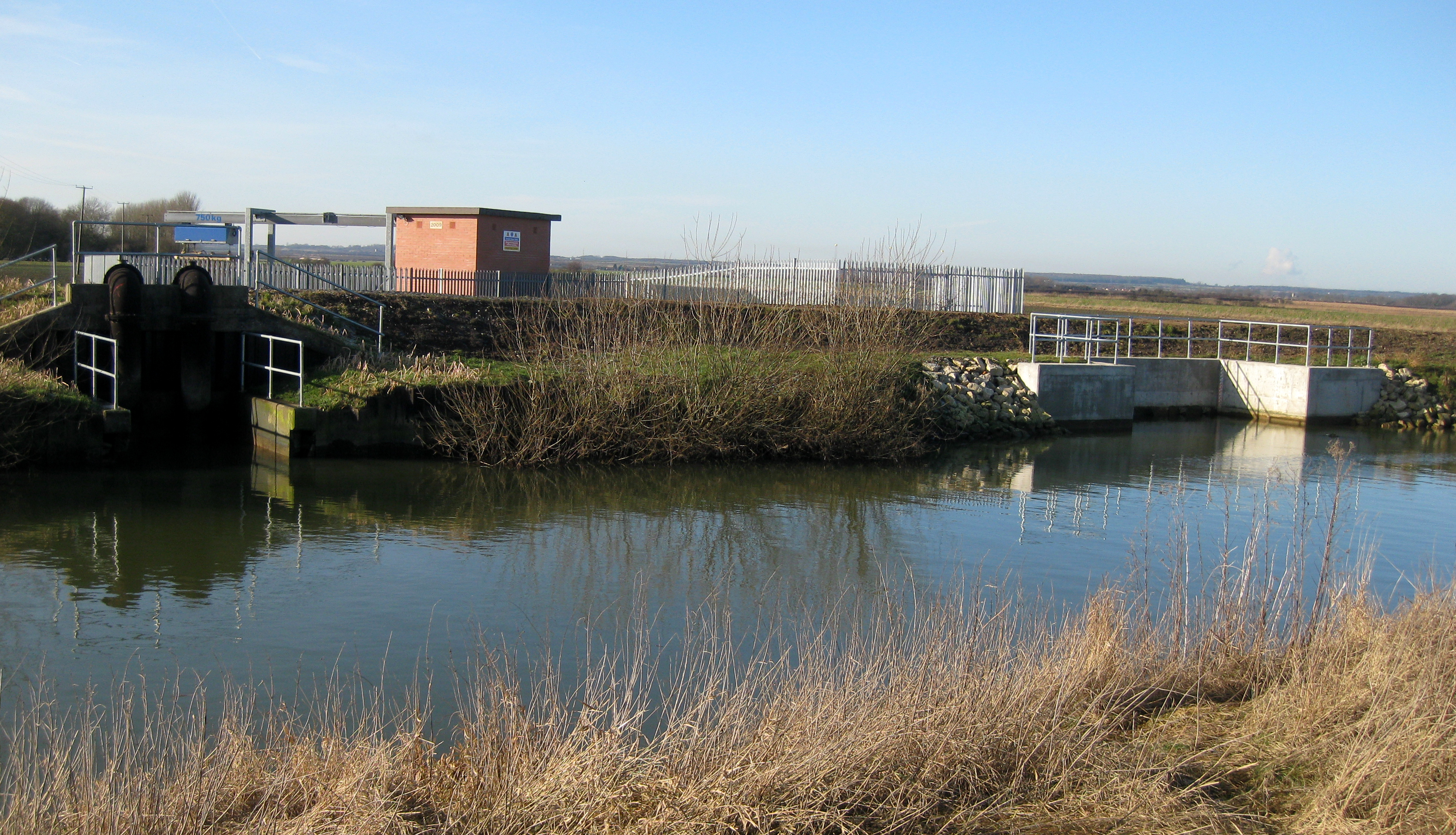 Redbourne Hayes pumping station on the River Ancholme. It is managed by Ancholme Internal Drainage Board